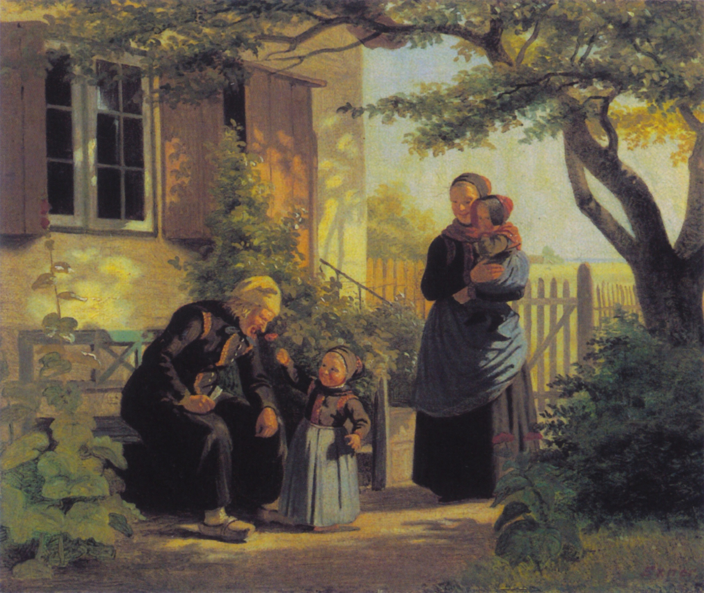 This painting was the first one bought by the tobacco merchant Heinrich Hirschsprung for his collection, in 1866.